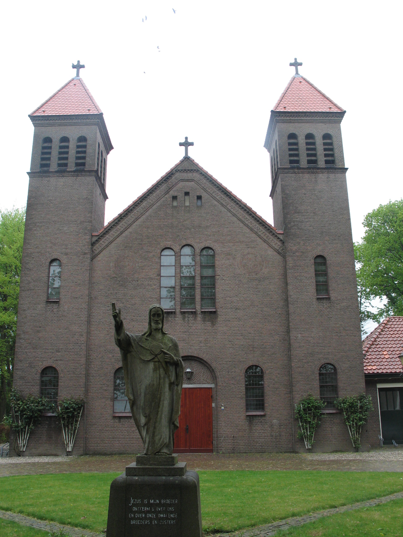 The church of Nieuw-Wehl (near Doetinchem)